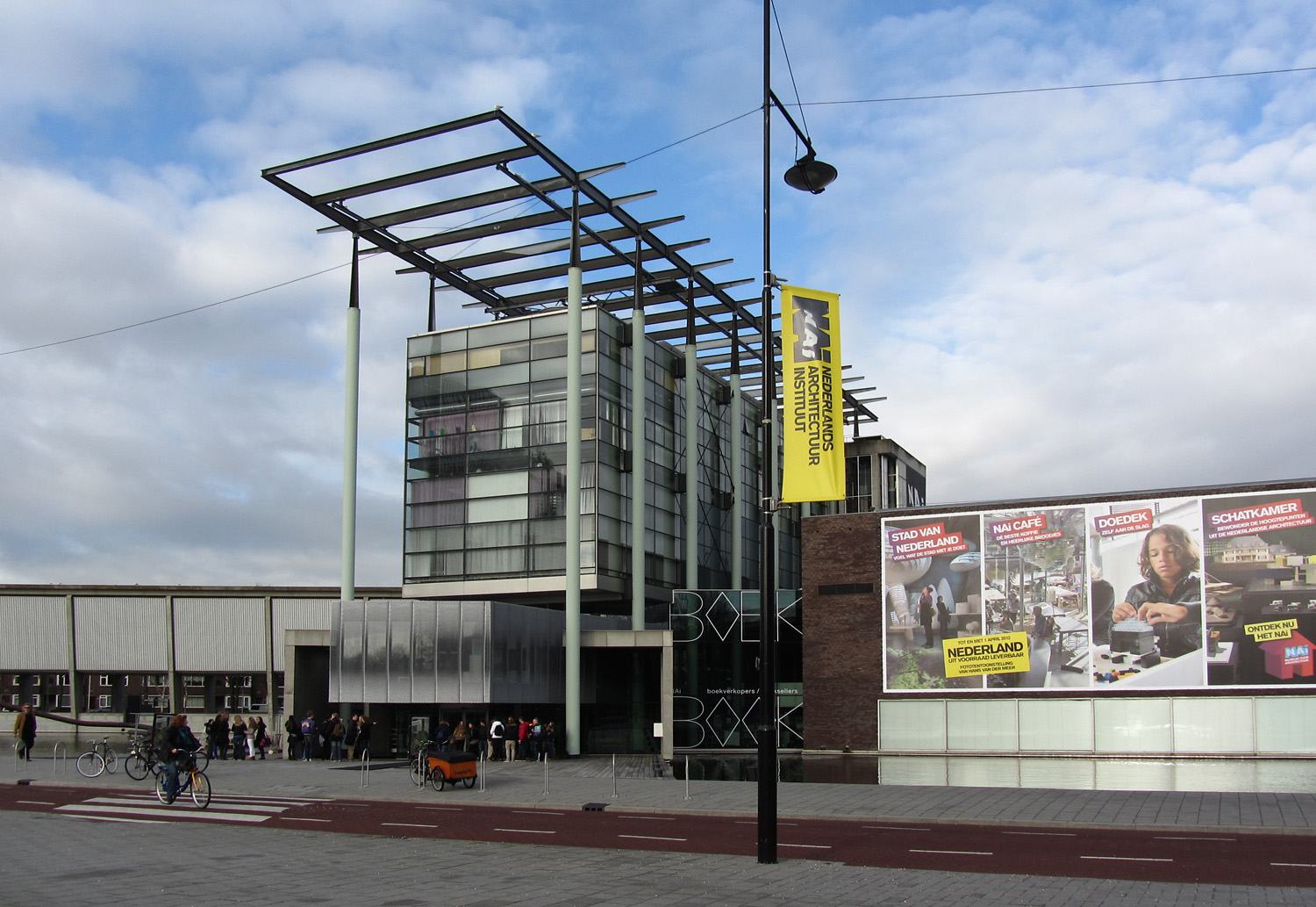 Nederlands Architectuurinstituut, Rotterdam